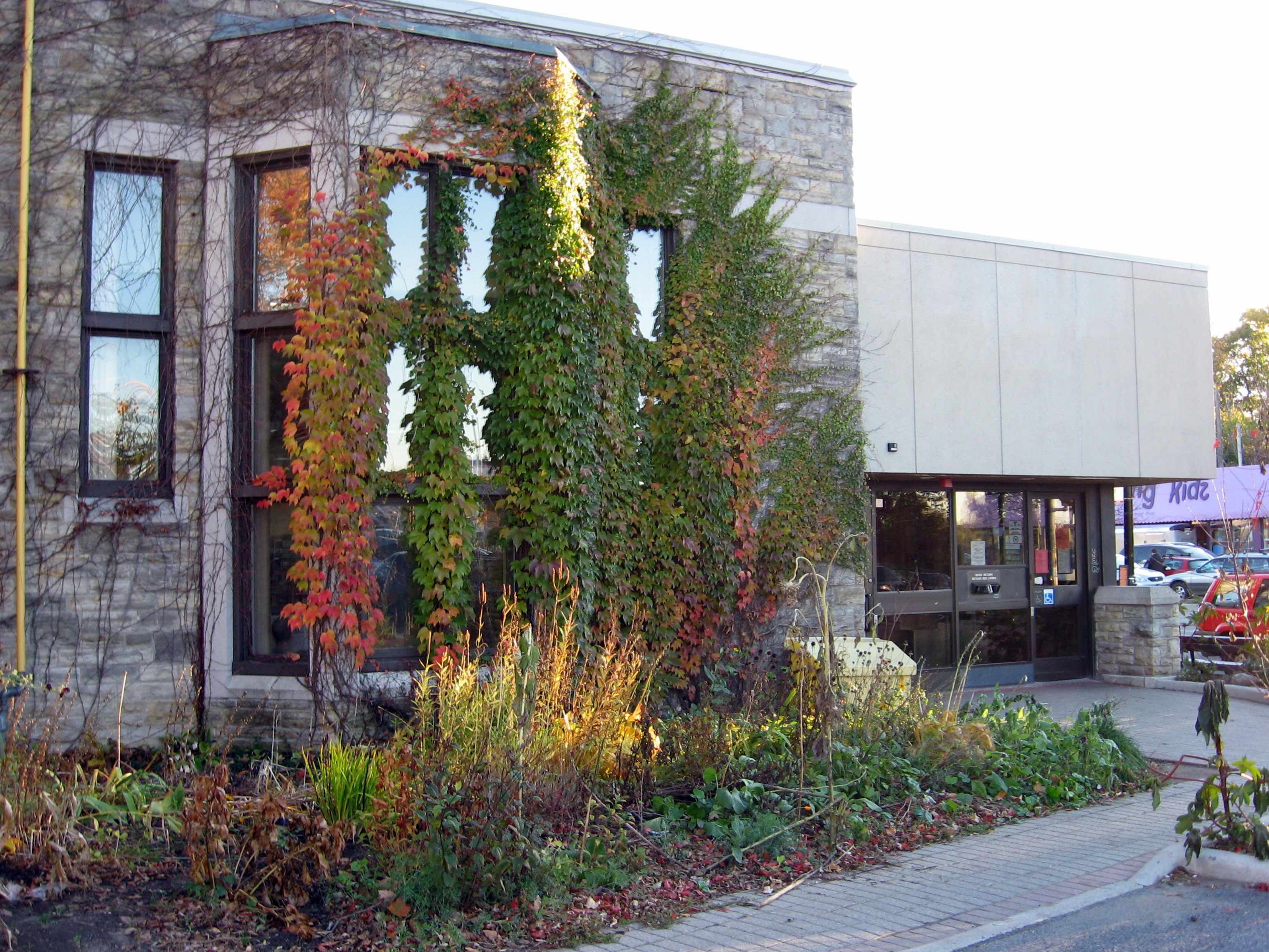 The Sunnyside branch of the Ottawa Public Library in Old Ottawa South, Ottawa, Canada.